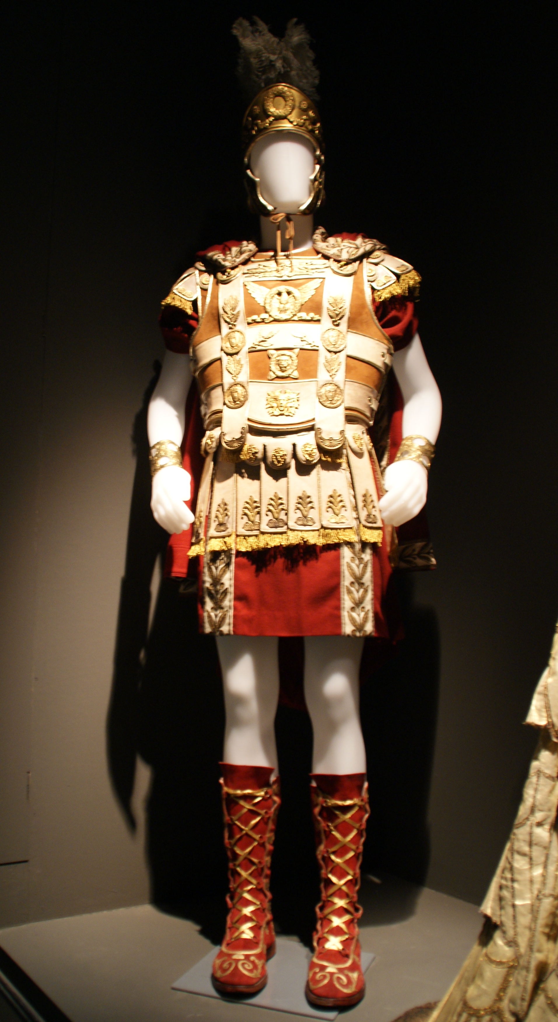 Costume worn by Richard Burton in the film Cleopatra (1963) by Joseph L. Mankiewicz displayed in Cinecittà studios, Rome, Italy. (source)